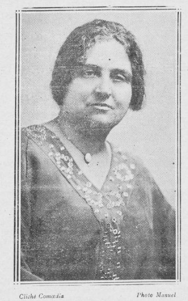 Photograph taken in the Manuel brothers' studio, by photographer Henri Manuel (1874-1947), in 1923, when Jeanne Galzy won the Femina Prize the same year